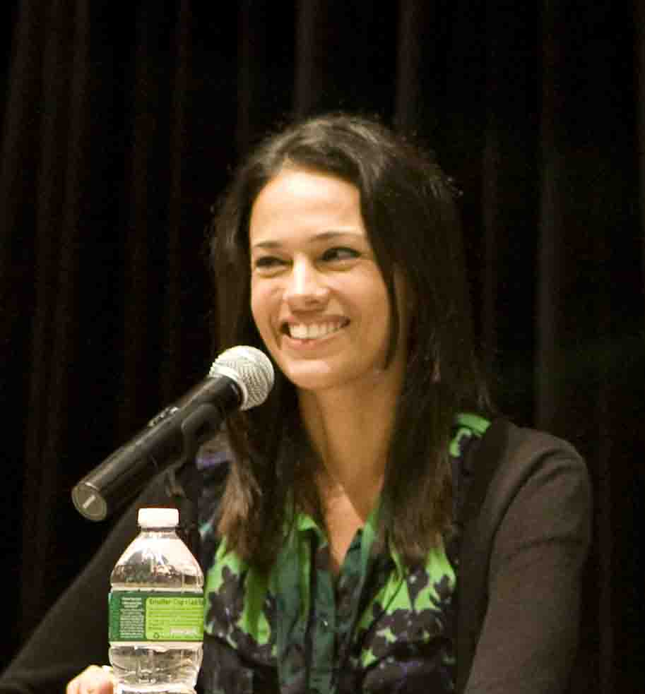 Tishani Doshi and Salman Rushdie